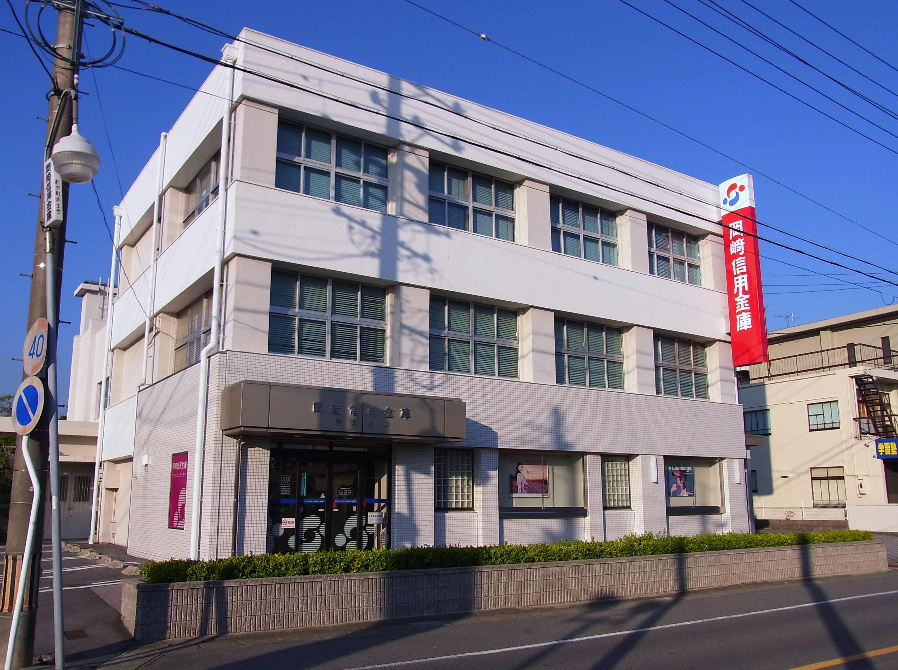 Okazaki Shinkin Bank Hazu branch in Hazu town, Aichi prefecture.